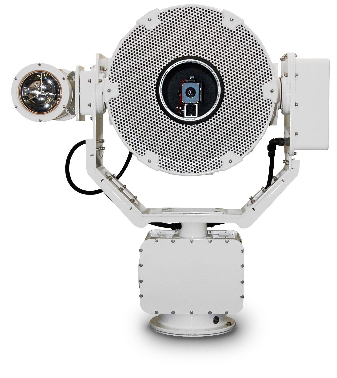 The HyperSpike HS-18 RAHD from the front with daylight camera and illuminator